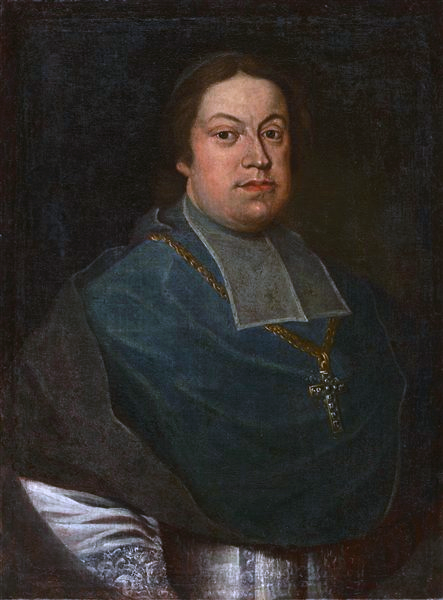 Jerzy Mikołaj Hylzen